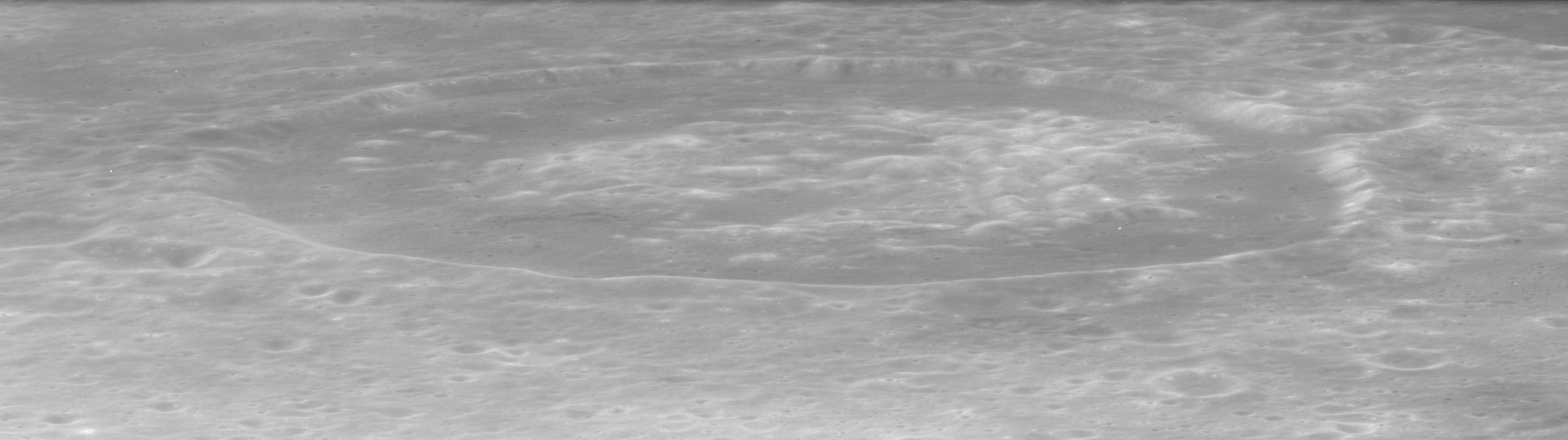 Oblique view of Warner crater, facing west, on the moon. Taken by Apollo 17 panoramic camera.